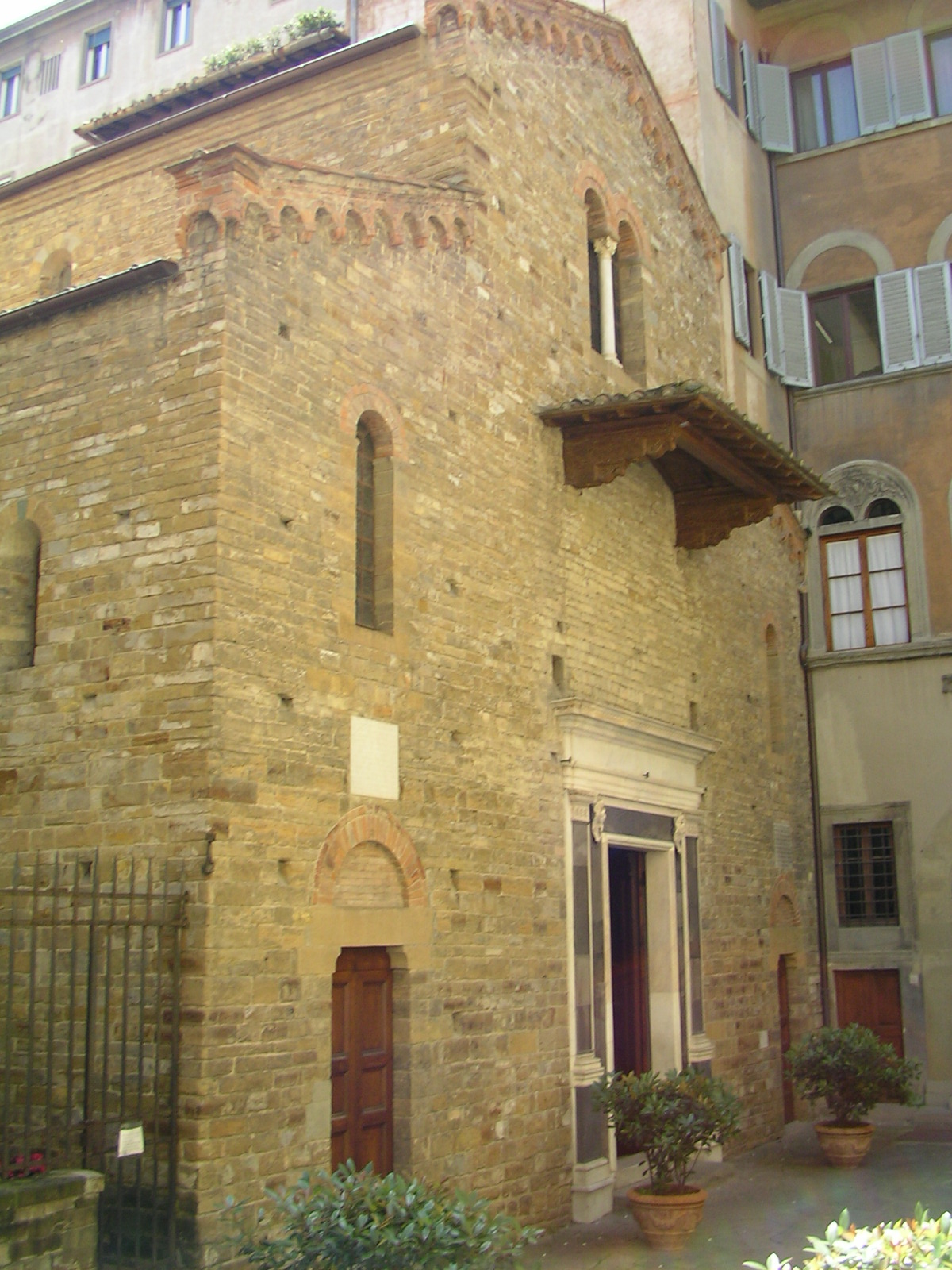 Santi Apostoli church (front) in Florence, Italy